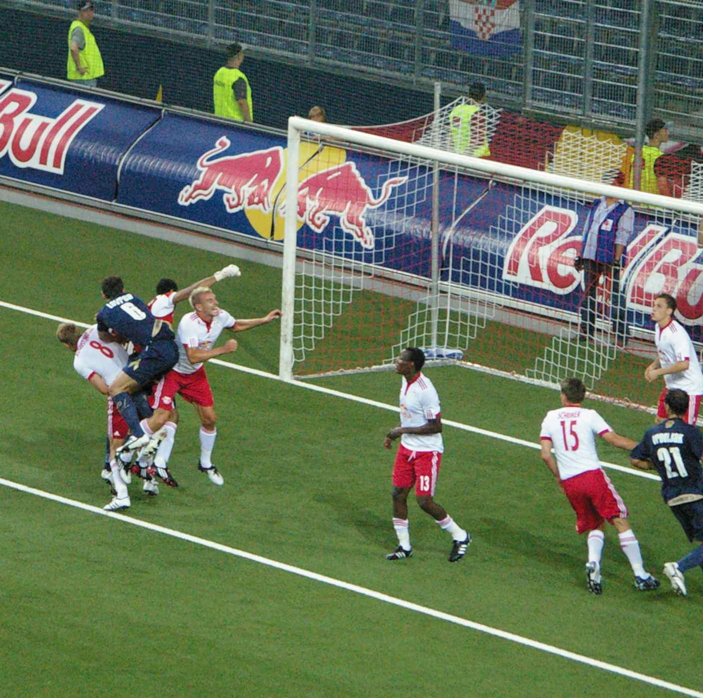 Champions League Qualifier 3rd leg FC Salzburg -Dinamo Zagreb(1-1)